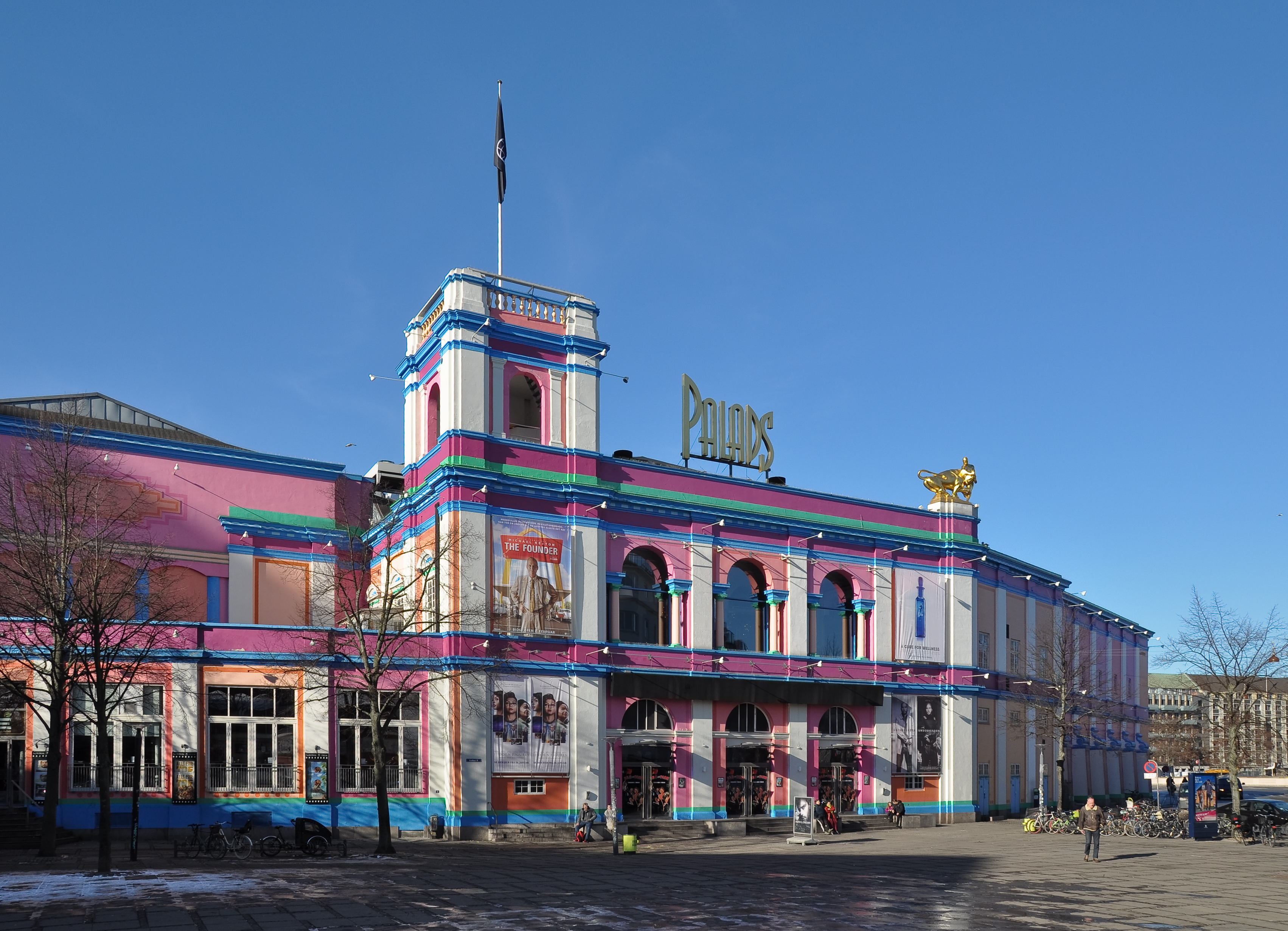 The cinema Palads Teatret in Copenhagen, photographed on 2017-02-14.